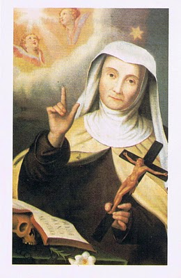 MARIANGELA VIRGILI (1661-1734) italian carmelite third order